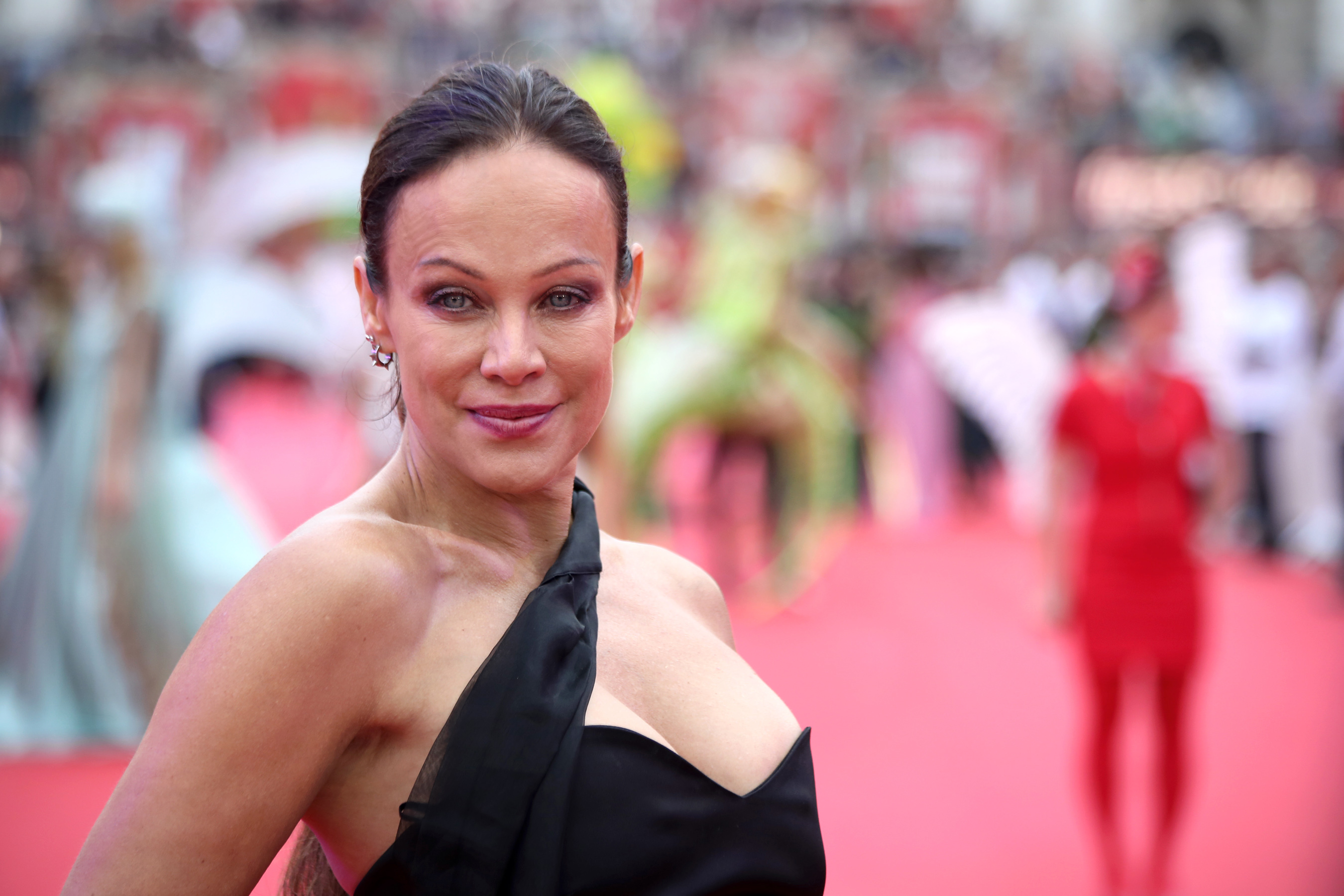 Life Ball 2014, Sonja Kirchberger on the red carpet in front of the Rathaus (Town Hall) of Vienna, Austria.